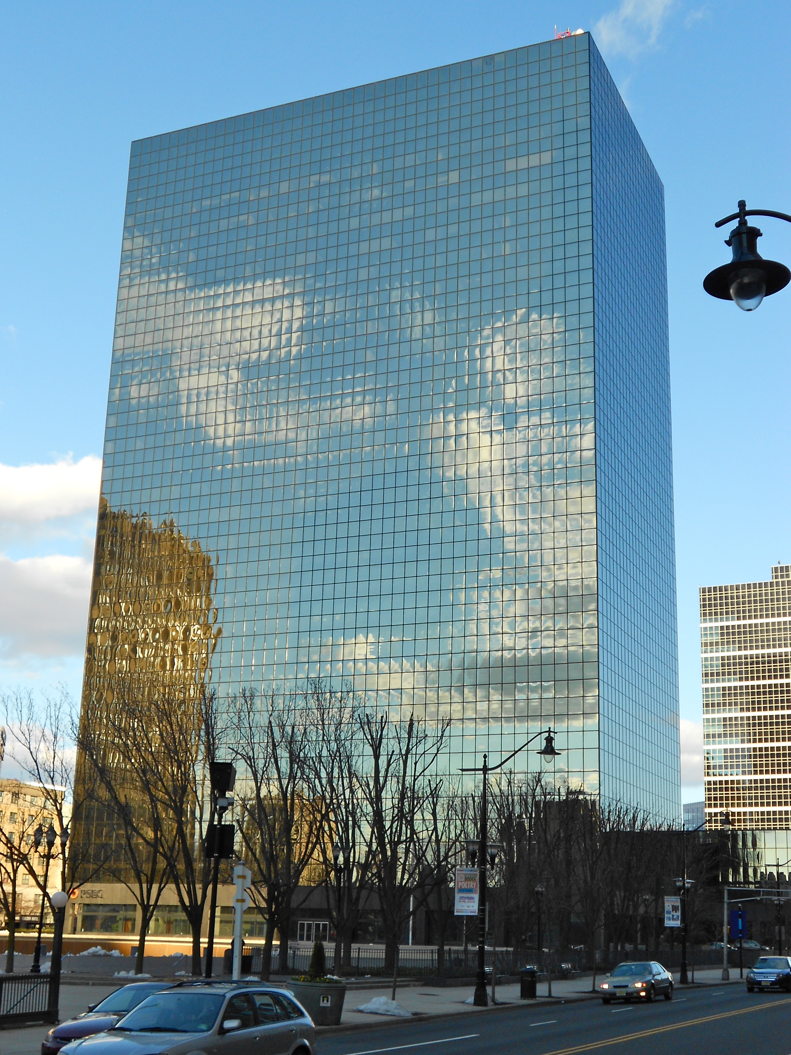 The PSE&G (Public Service Enterprise Group) headquarters building at 80 Park Place (just off Broad Street), in Newark, New Jersey. West face about sunset.